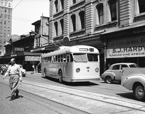 Brisbane trolley-bus No 9 seen in Edward Street shortly after the commencement of the trolley bus services in 1951. The trolley bus chassis is an English-built Sunbeam MF2B, under a locally built body. The abandoned tracks of the Spring Hill tram line can be seen in the foreground. The last tram ran in Edward Street in 1947.